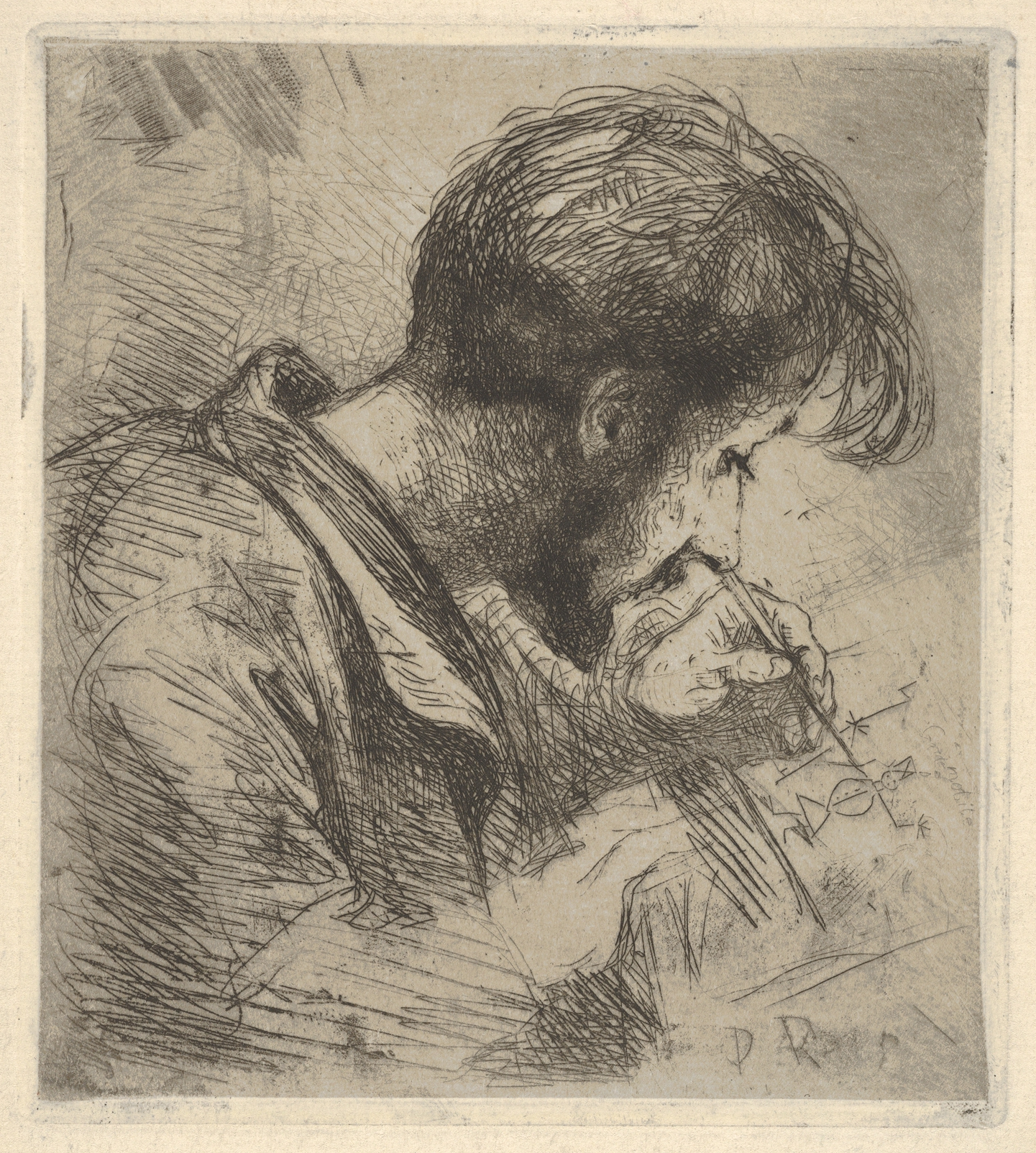 Print; Prints